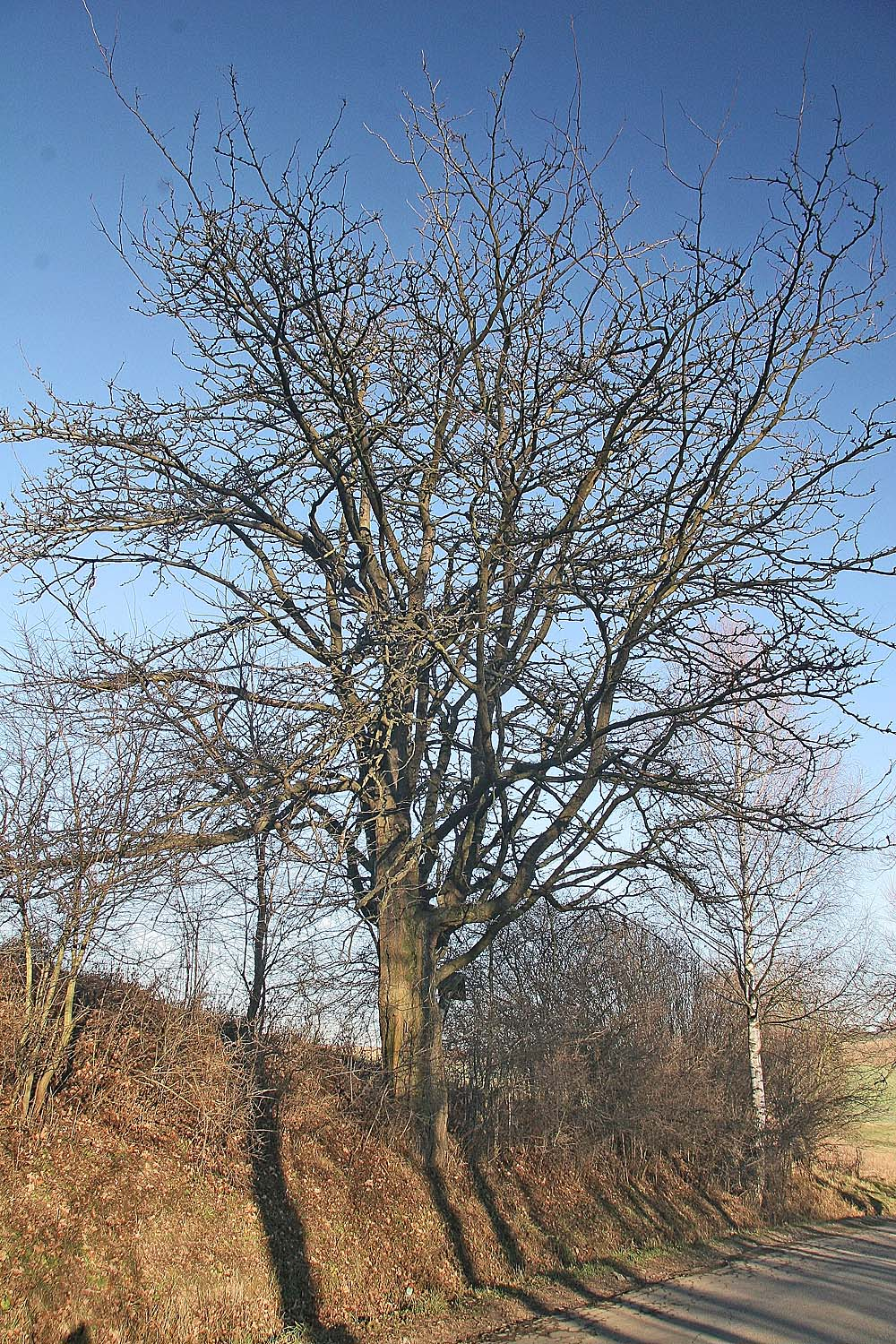 Gleditsia triacanthos - habit in winter